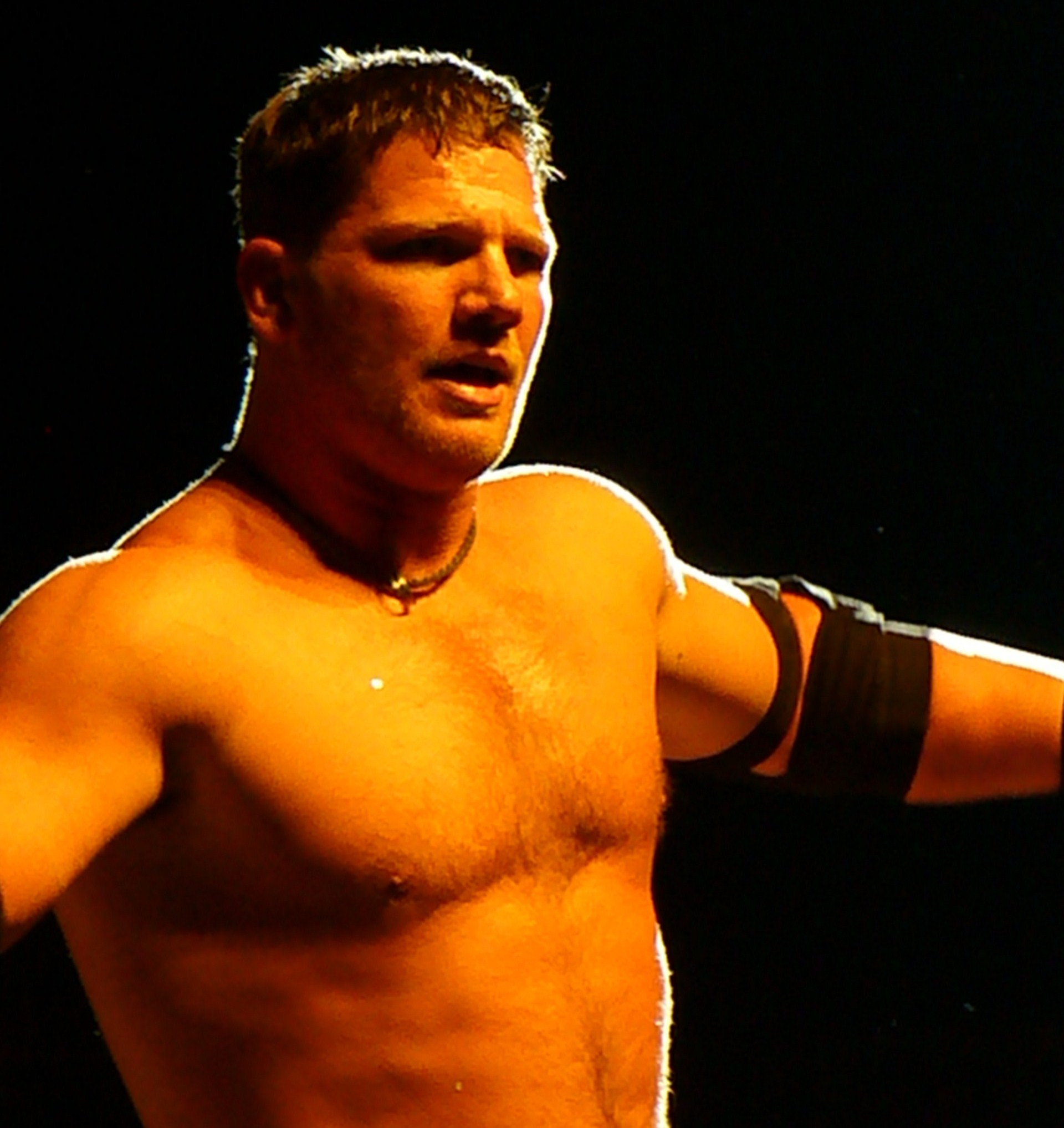 AJ Styles in London